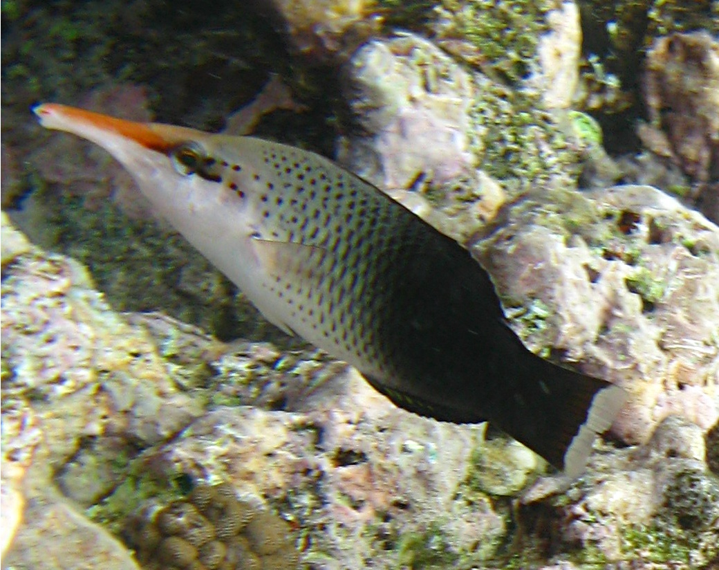 Female Gomphosus varius on Flynn Reef in the Great Barrier Reef near Cairns, Queensland, Australia.